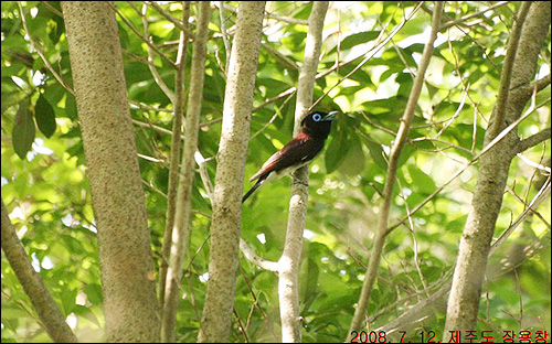 Japanese Paradise Flycatcher. Taken in Jeju-do, South Korea